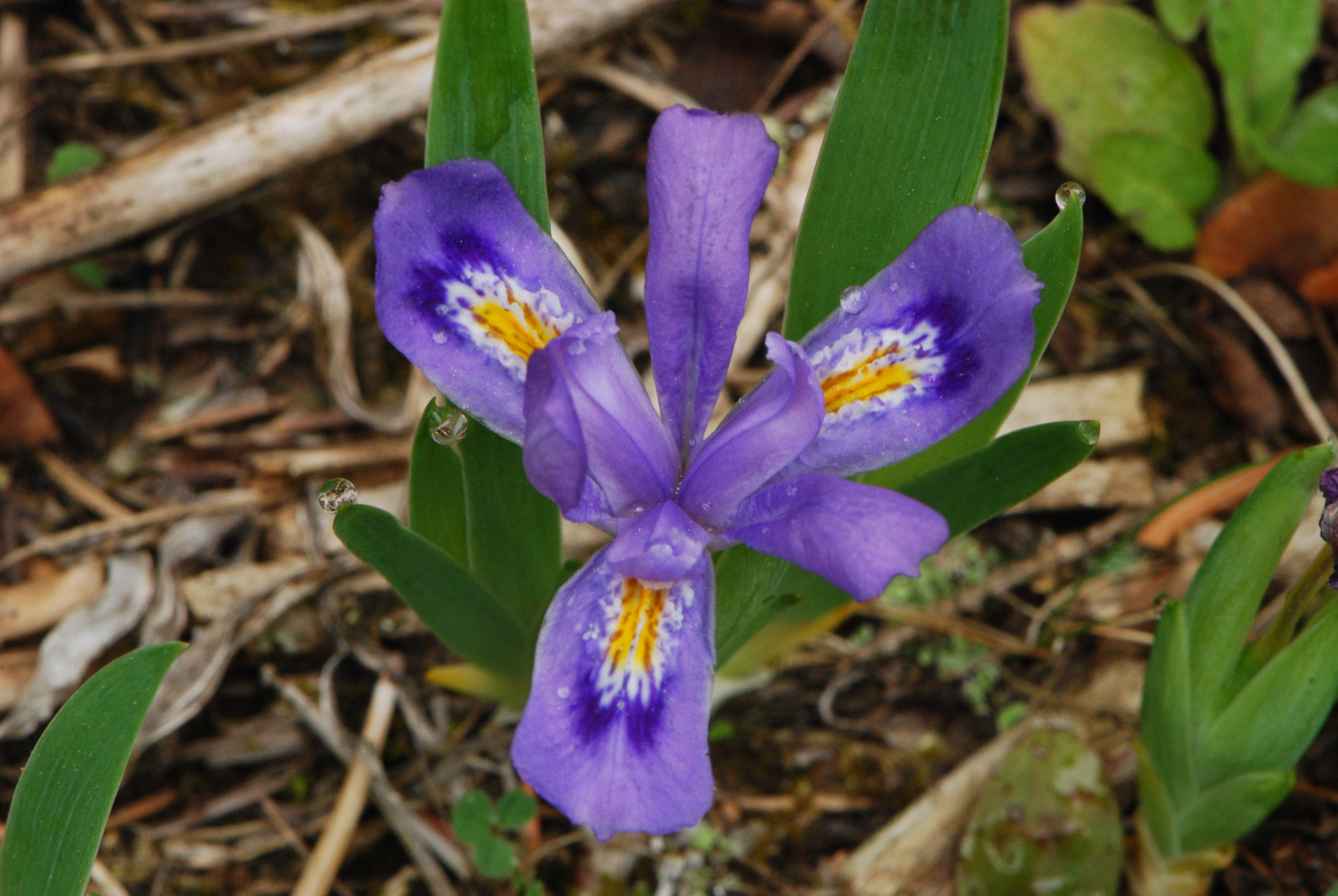 Iris lacustris — Dwarf Lake Iris (Iris lacustris) In Door County, Wisconsin.